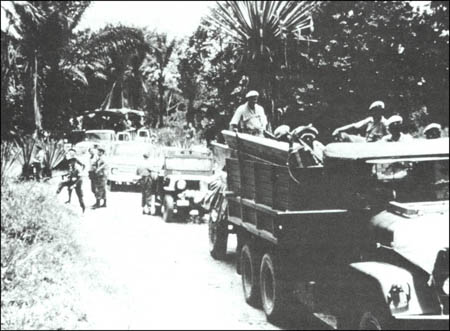 original description: "L'Ommengang in the advance to Stanleyville"[1]